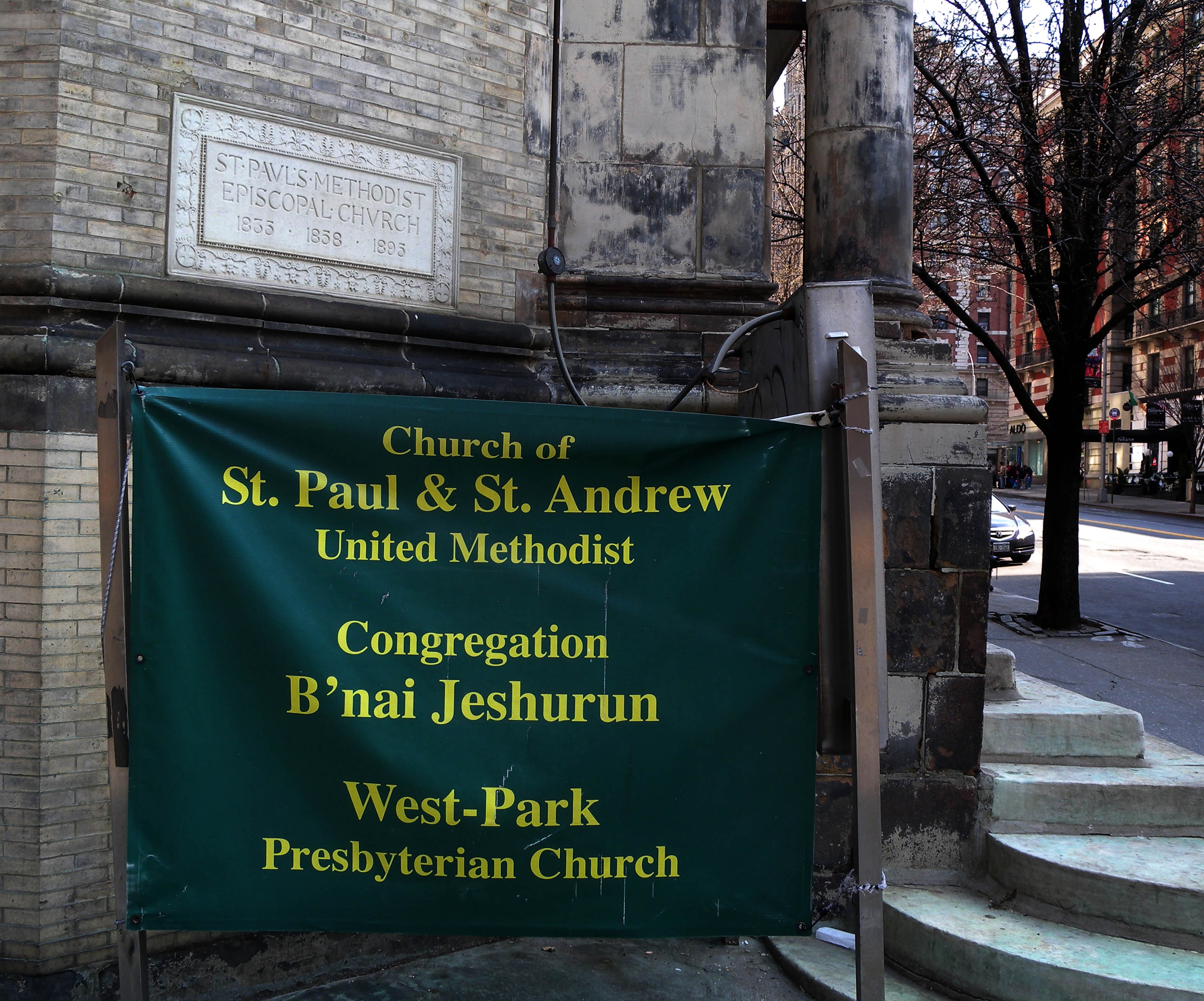 Looking east at banner in front of West-Park Presbyterian Church (New York City) proclaiming the other two congregations sharing the space.